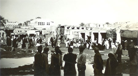 Qatif khamees market